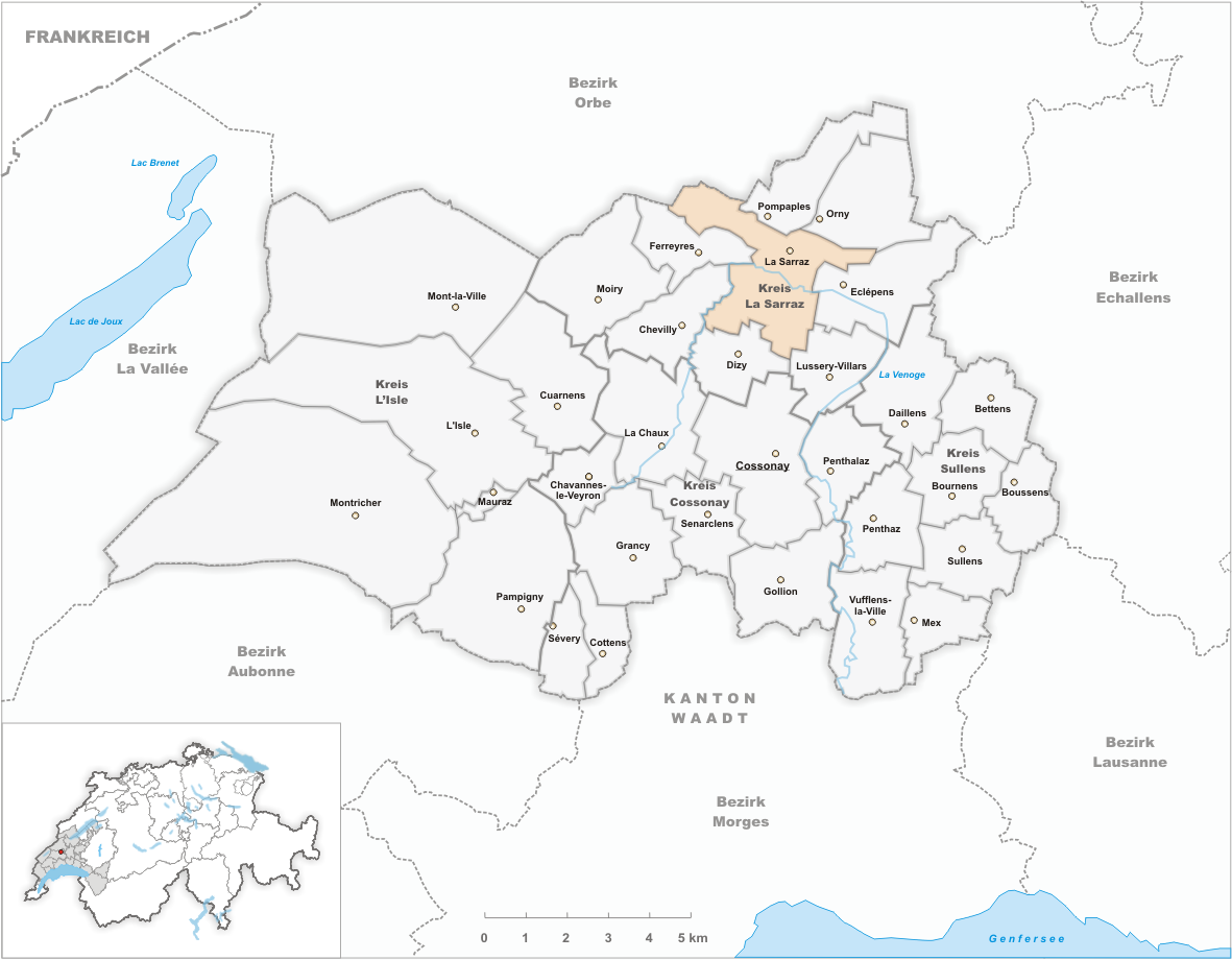 Municipality La Sarraz